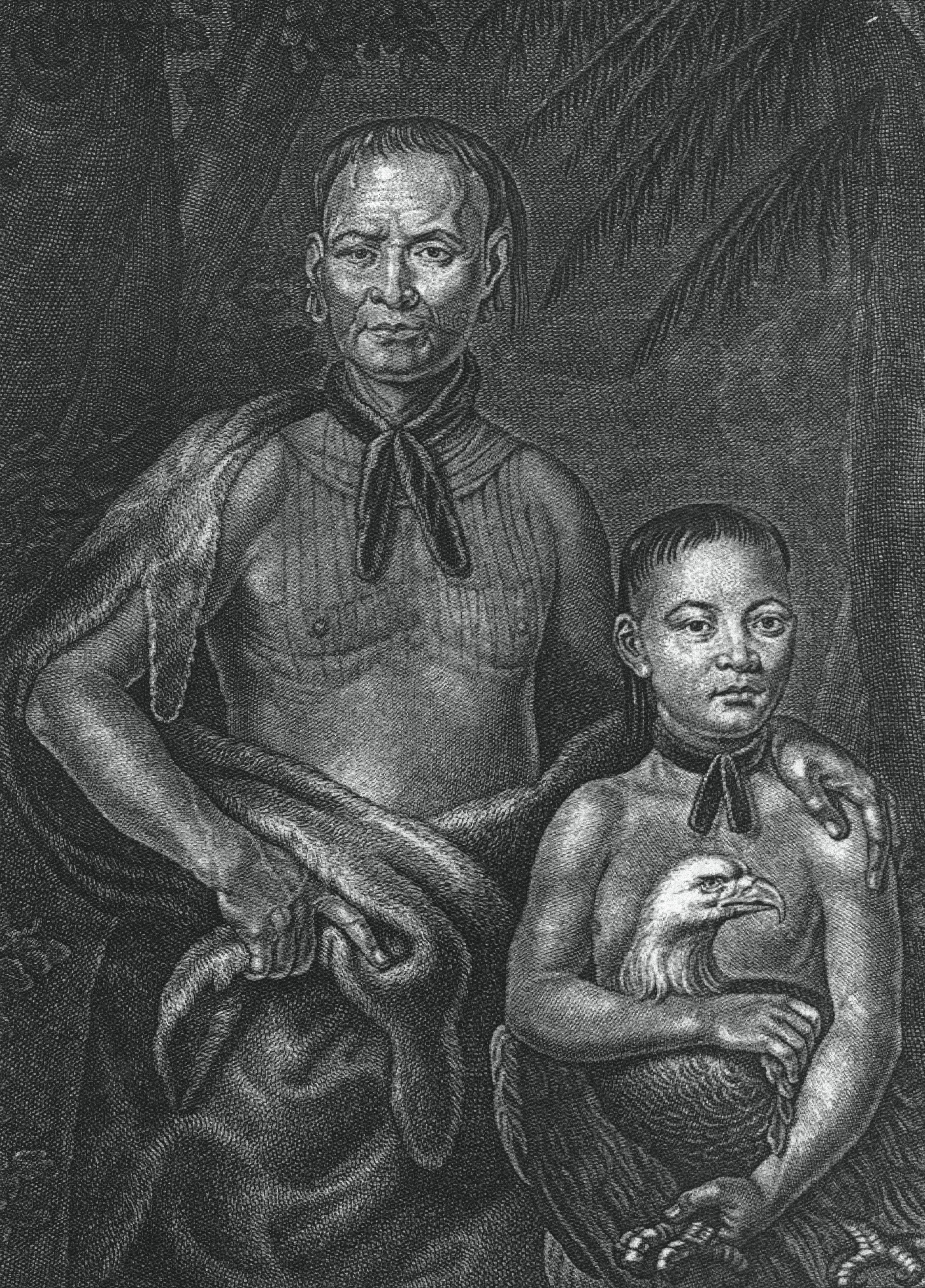 Chief Tomochichi and his nephew poses with an eagle.